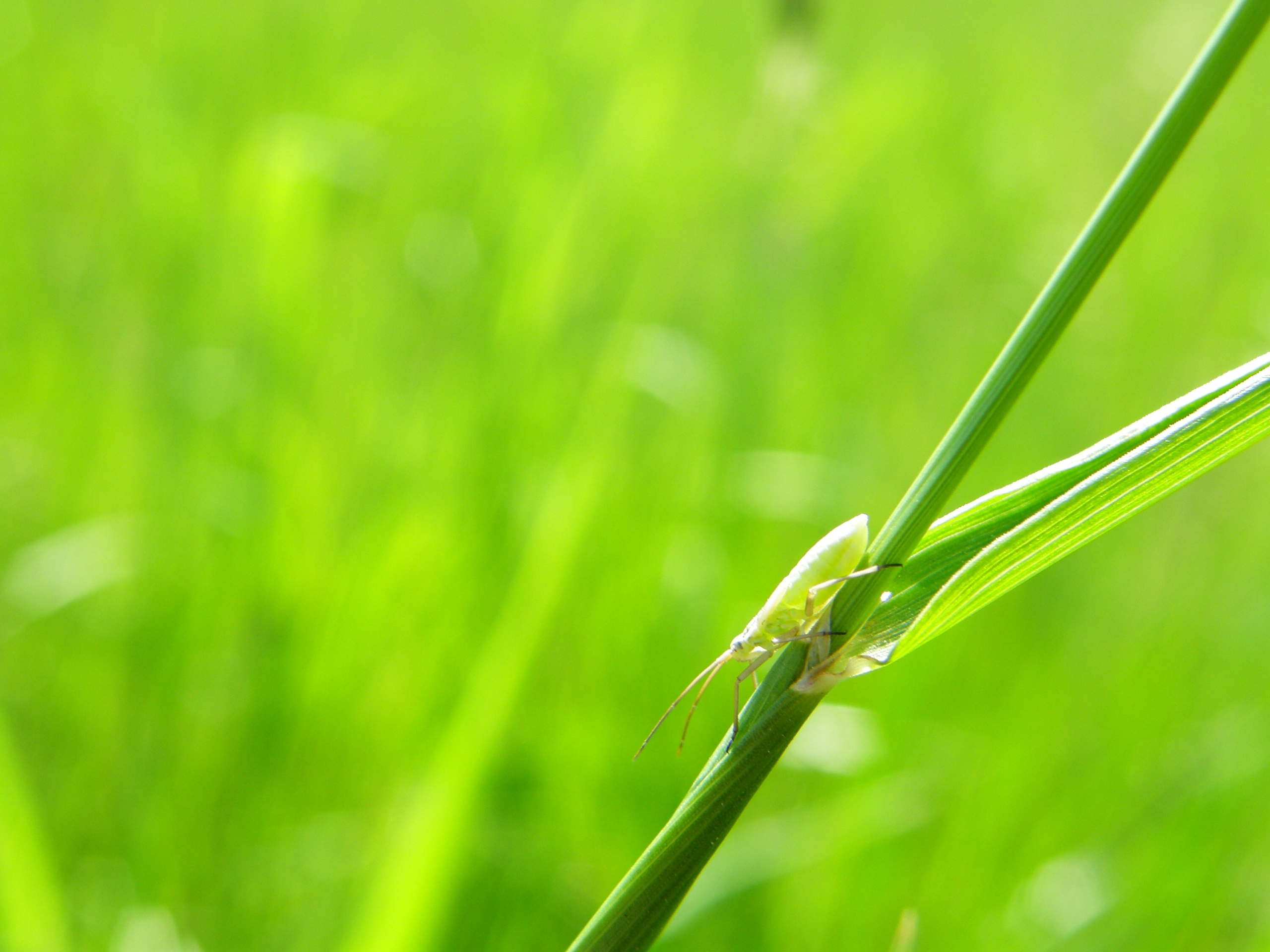 Natural monument Na Popovickém kopci